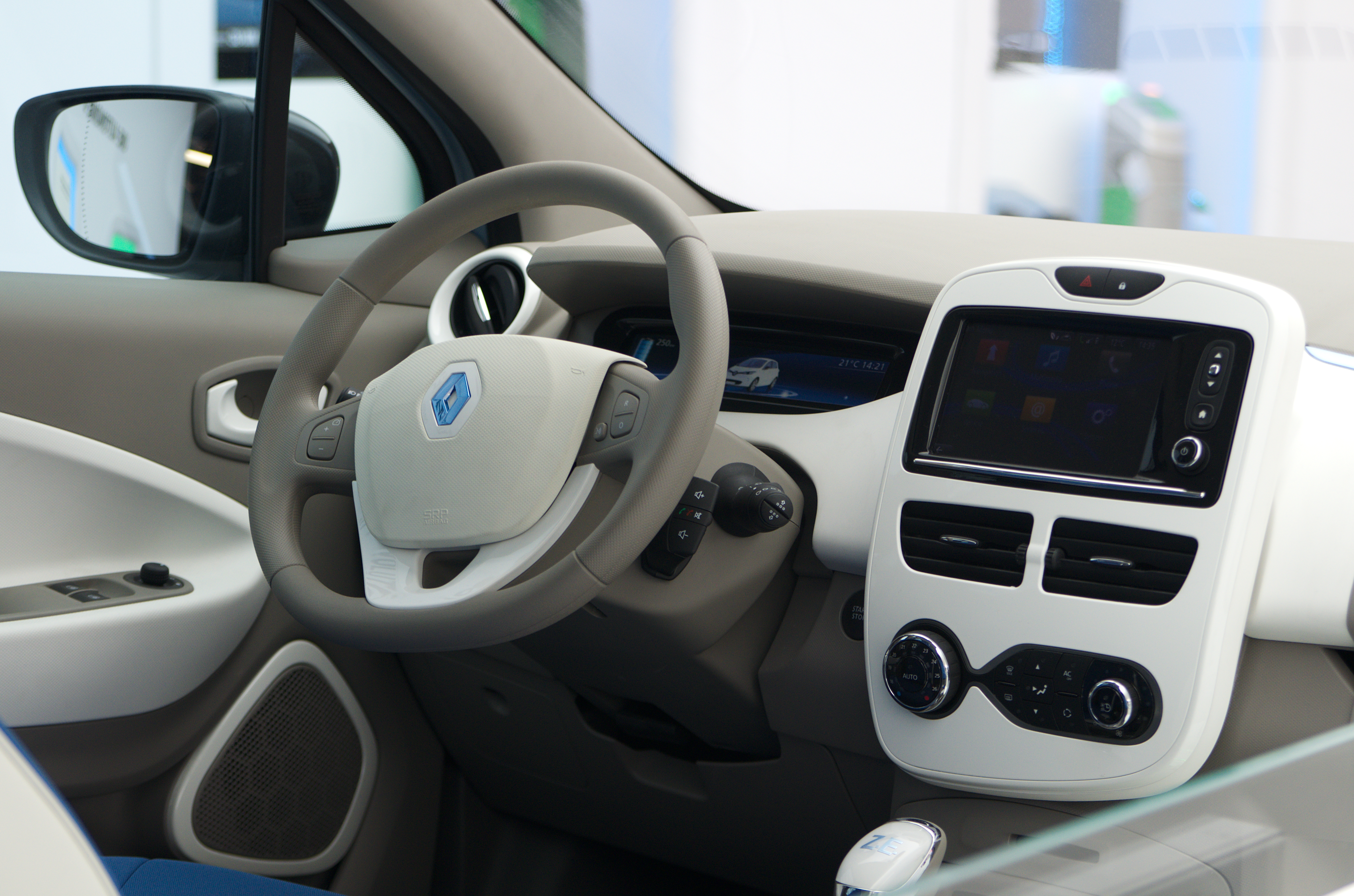 Geneva MotorShow 2013 - Renault Zoe steering wheel